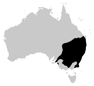 Distribution of the Peron's Tree Frog (Litoria peronii).